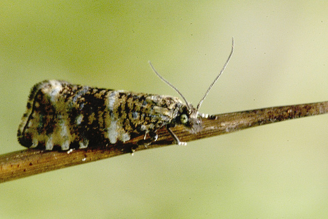 Picture taken in Commanster, Belgian High Ardennes . Species: Celypha lacunana